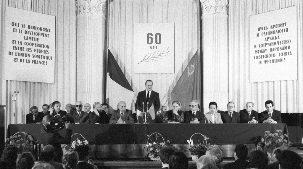 “Meeting dedicated to the anniversary of establishing diplomatic relations between the USSR and France”. Delegation of Foreign Affairs commission of French National Assembly visiting the USSR. Rally of Soviet public on the 60th anniversary of establishing diplomatic relations between the USSR and France. In the center: Presidential Council member of "USSR-France" society, CPSU Central Committee Department Head for Overseas Staff and Travel Stepan Chervonenko.